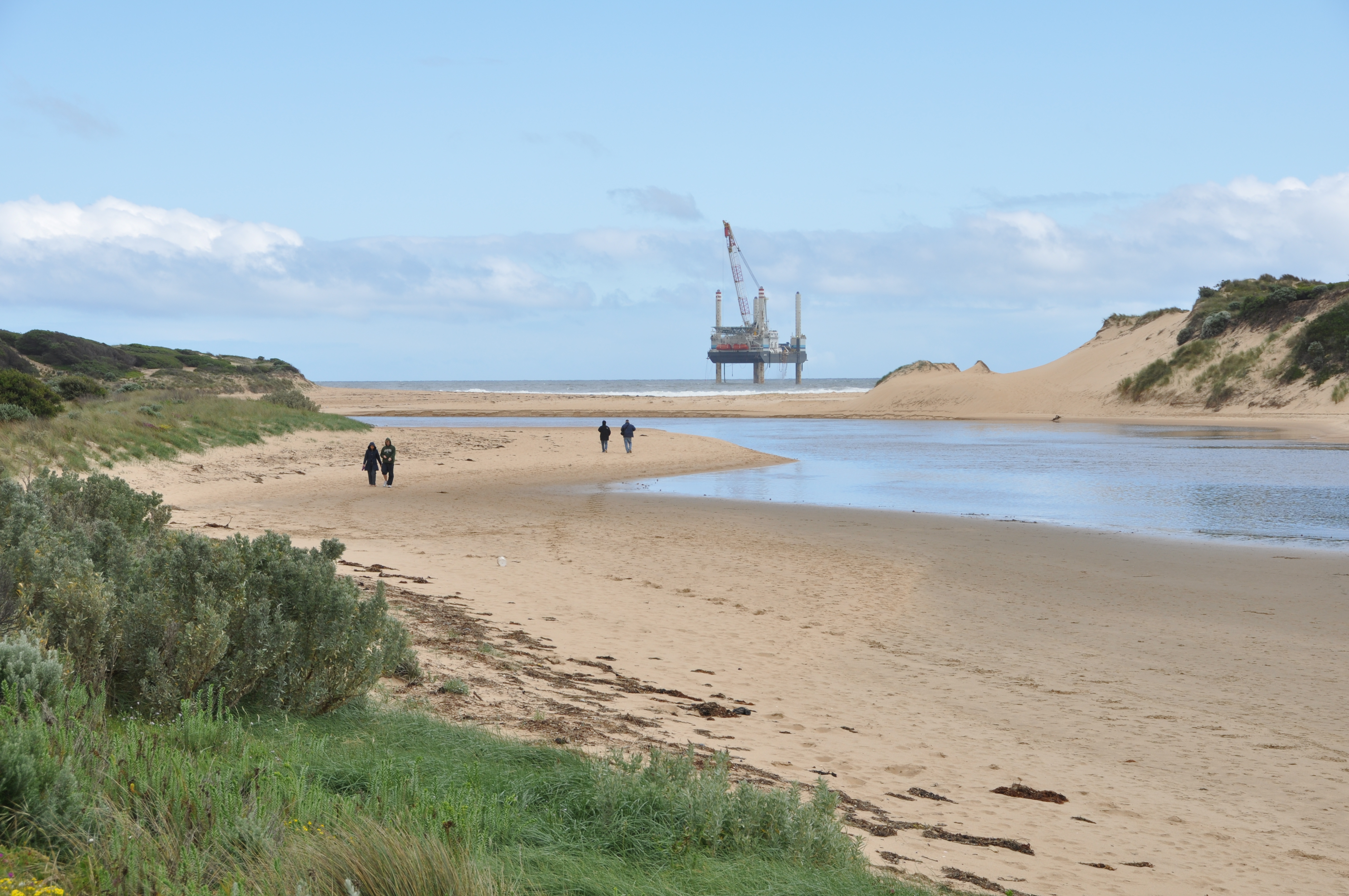 Little Powlett River and rig near Wonthaggi desalination plant